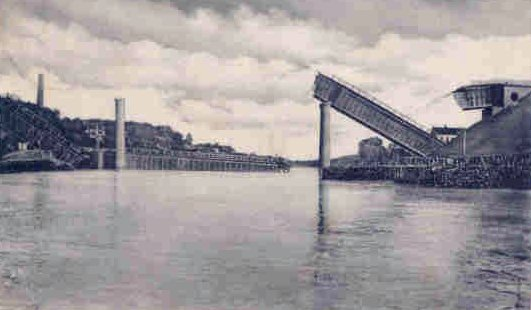 Destroyed railway bridge across Neman river in Hrodna, Belarus. Photo.